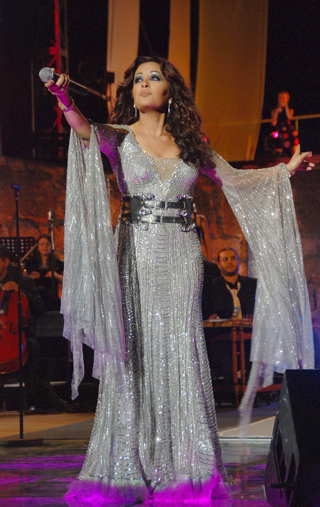 Photo of Latifa by me, taken in Carthage 2008 concert in Tunisia